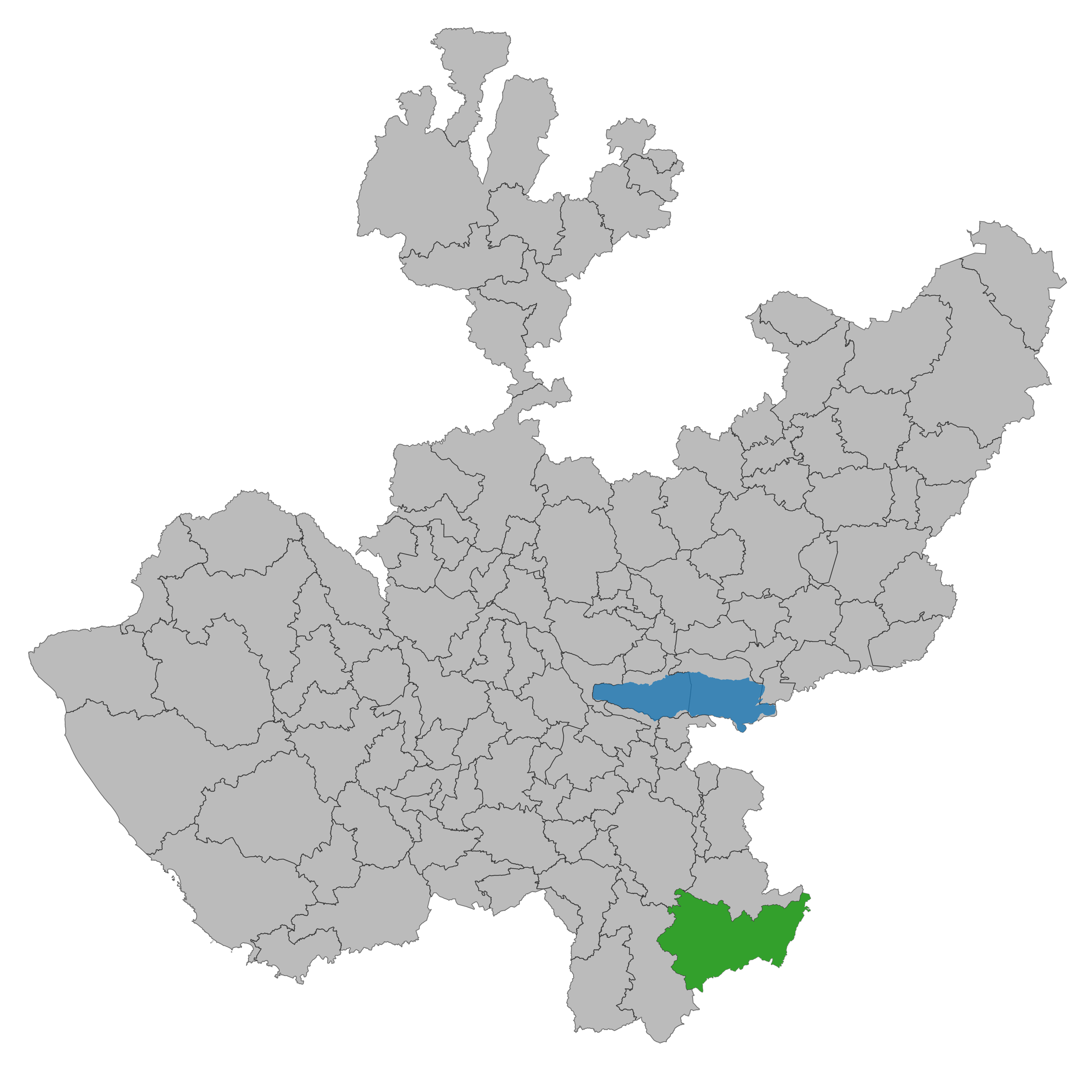 Municipality of Jalisco. Prepared with the software QGIS version 2.8.2 Wien & with information of SCINCE 2010 version 05/2013